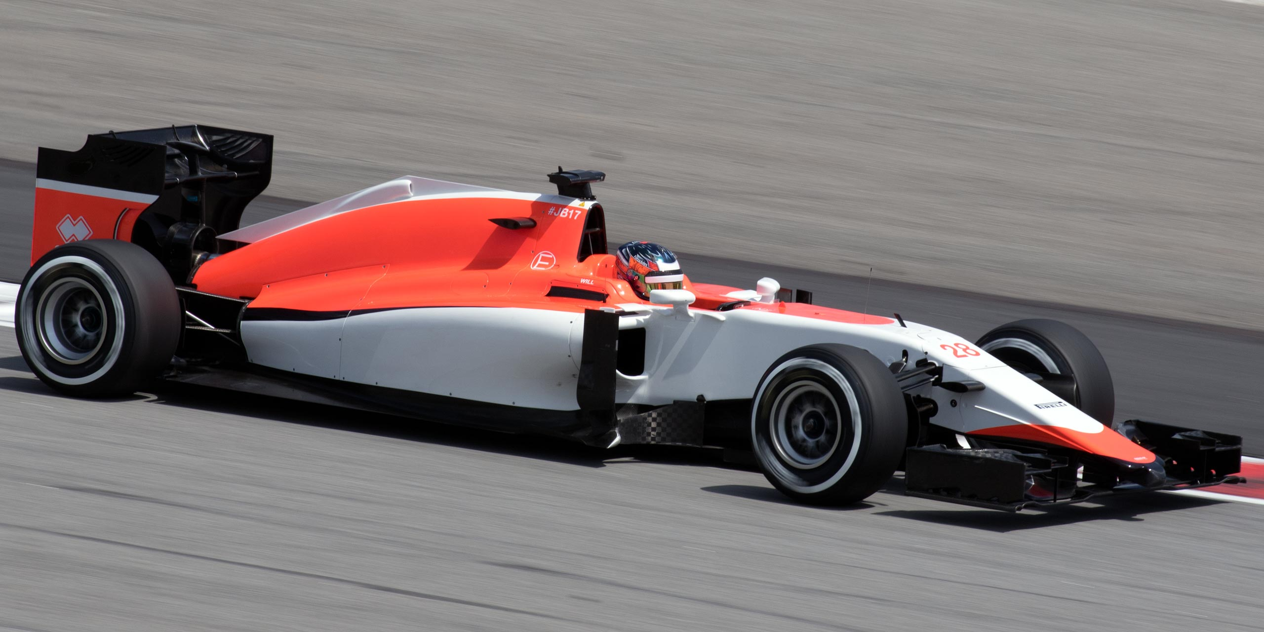 Formula One 2015 Rd.2 Malaysian GP: Will Stevens (Manor-Marussia)